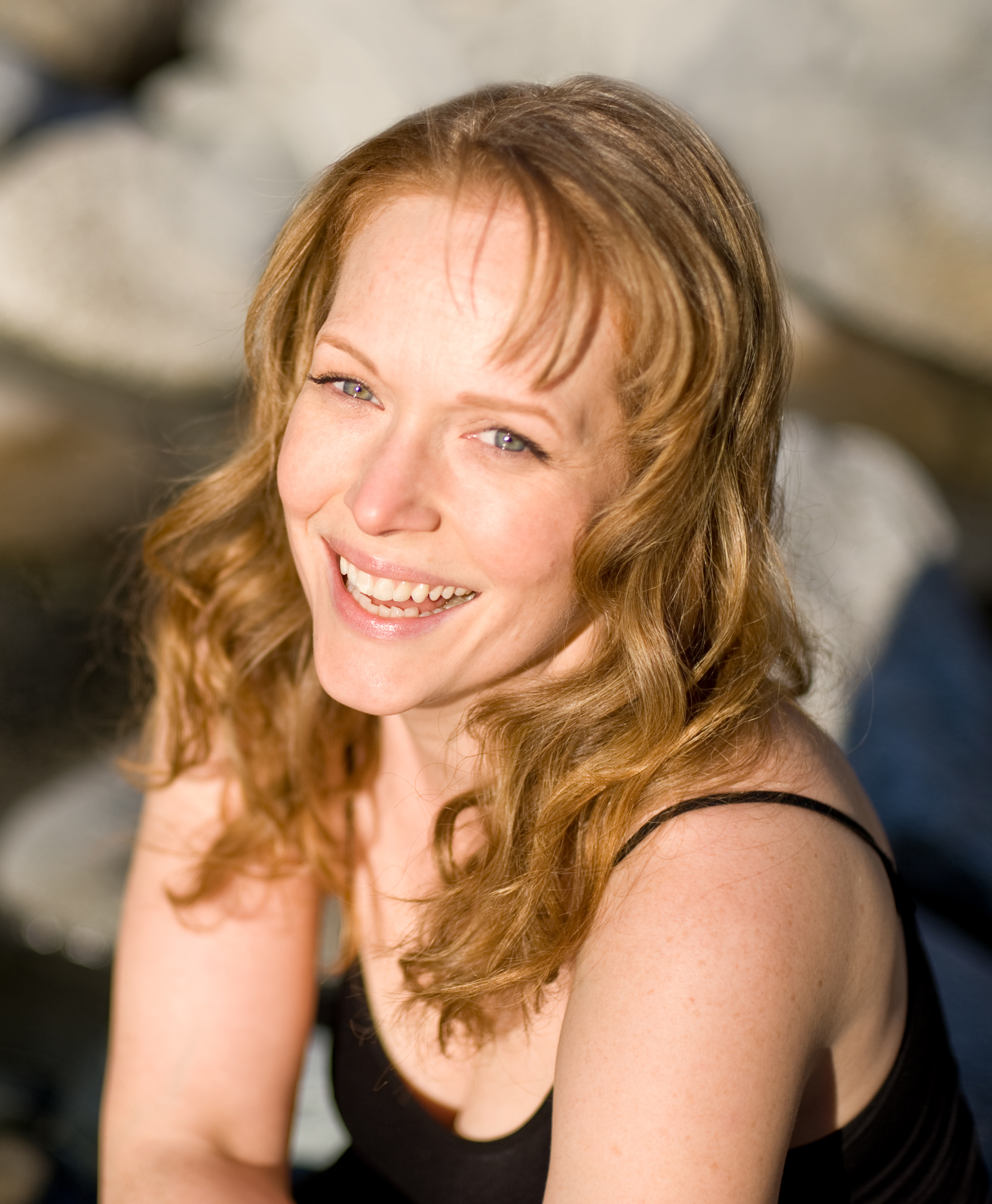 Chelah Horsdal; photographed by Melissa Gidney; December 2009